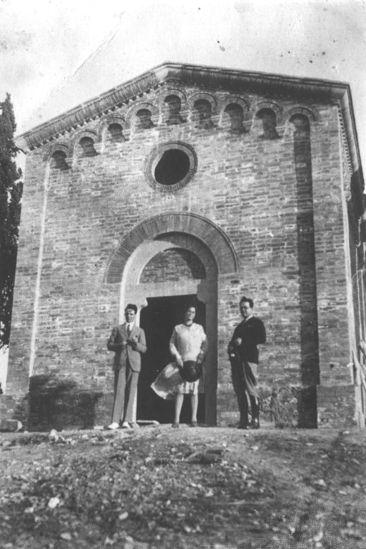 Church of Santa Cristina in Gambassi Terme in 1935. In front of the church, from left to right: count Alessandro Nardi-Dei, his wife Anna, and a local civil employee.